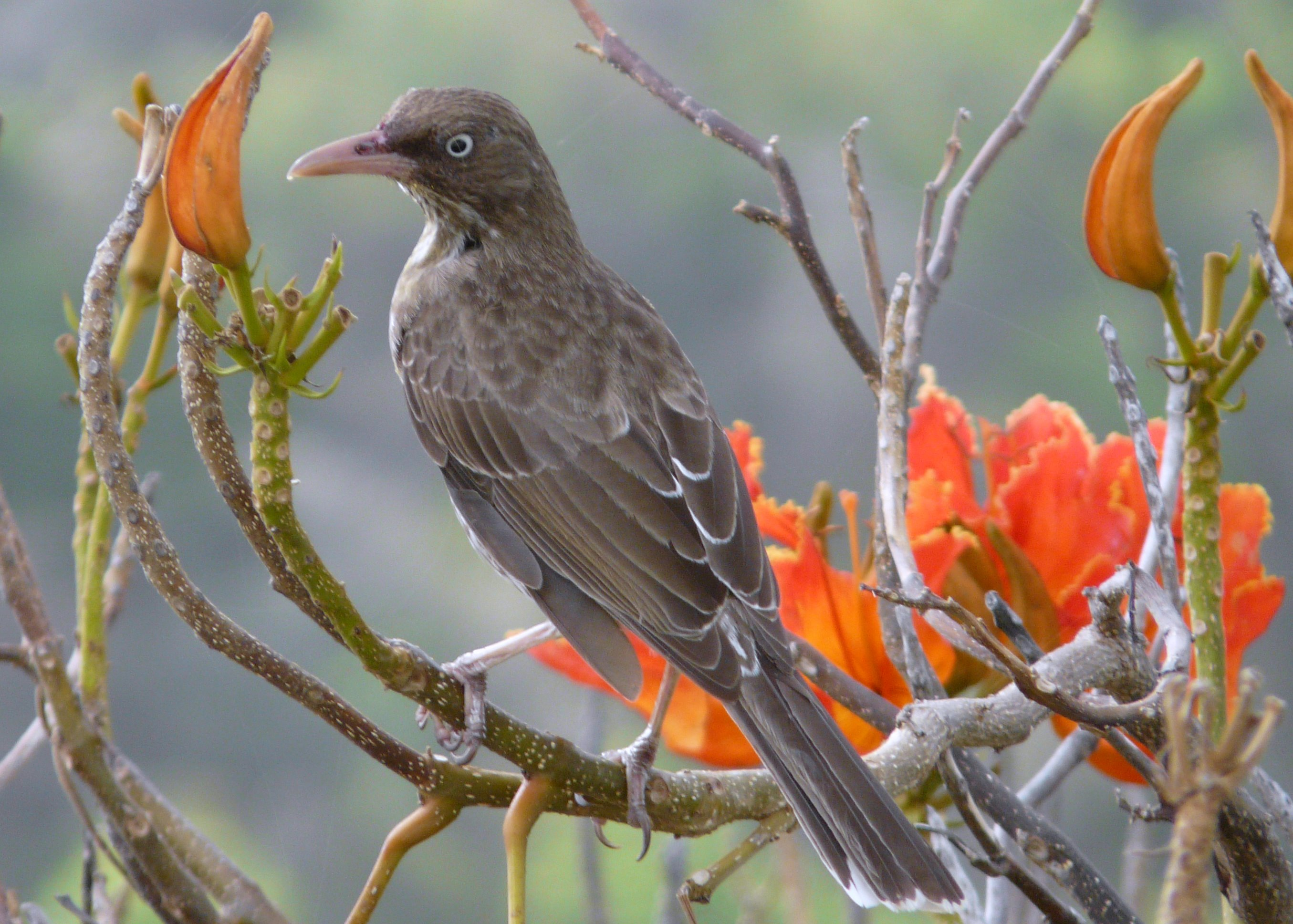 A Pearly-eyed Thrasher on Guana Island, British Virgin Islands.